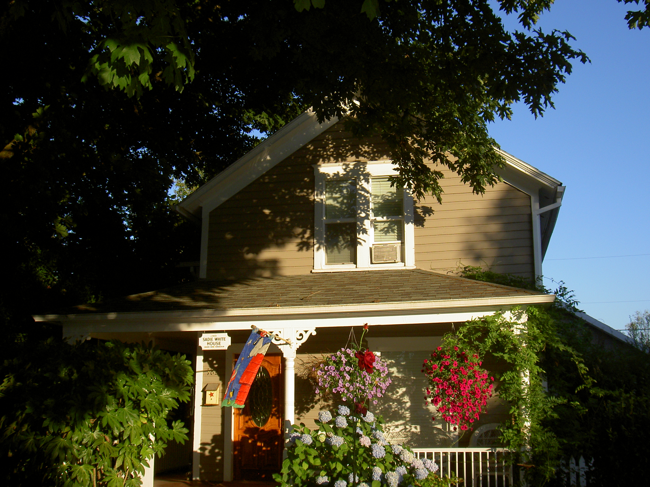 The historic Sadie E. White House (built ca. 1904), located at 1831 6th Avenue in West Linn, Oregon, United States, is identified as a contributing resource within the Willamette Falls Neighborhood Historic District.